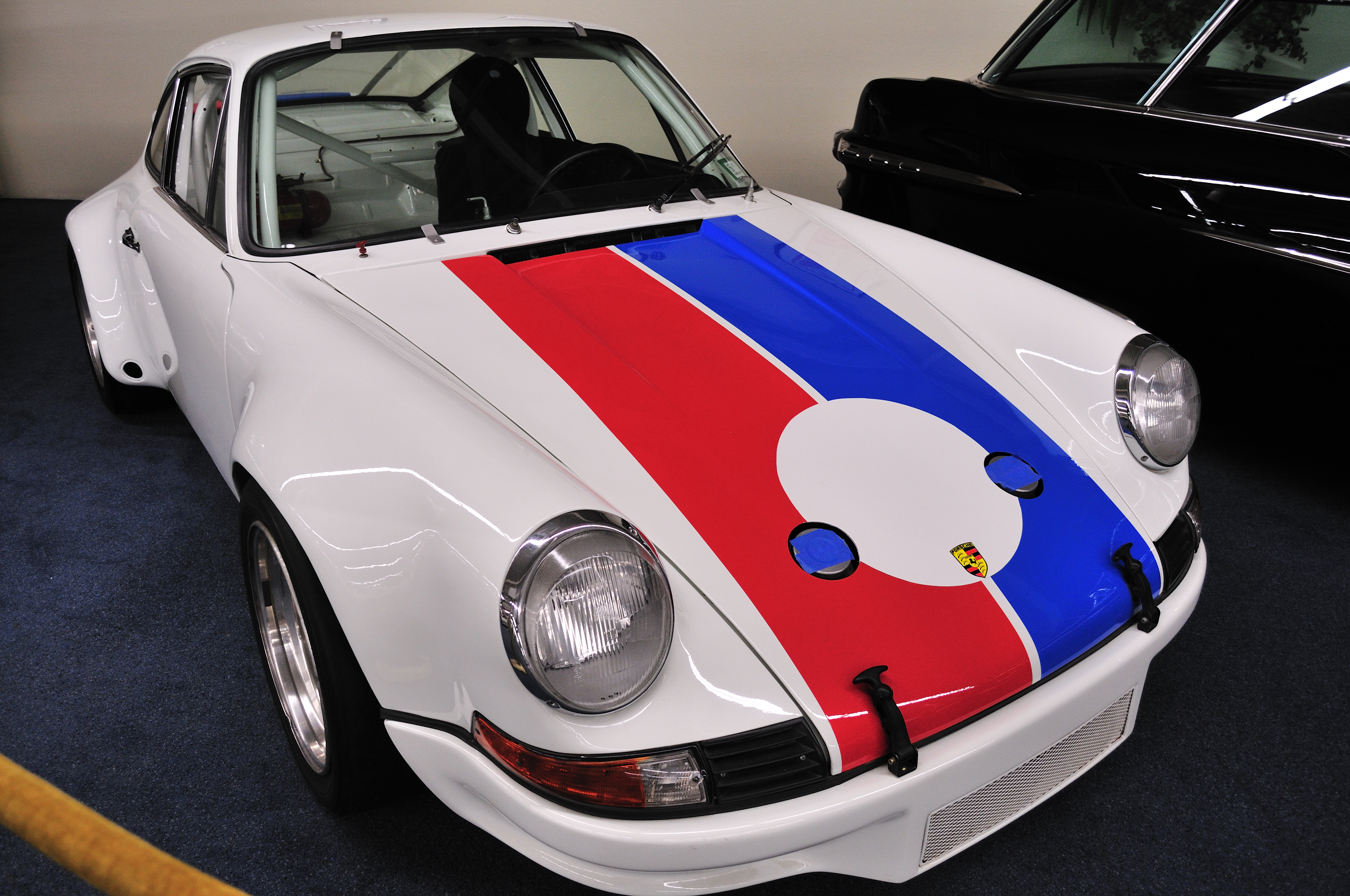 Chassis No: 911 360 1113 - Prod. No: 103 6629 - Engine No: 693 0157 - G/box no: 931 043 Chassis number 911 360 1113 is even rarer than most RSRs, being one of those lucky few cars that, having seen relatively little action on the tracks has retained all of its original patina, including the Brumos paint scheme it first wore. Inside the front compartment is mounted the ATL fuel cell that Brumos had fitted to all the RSRs that passed through their hands. The engine in this RSR is interesting in itself; it is an early “Works” RSR 3-liter unit, on throttle slide injection with, of course, the usual Bosch twin plug ignition system. It is also fitted with Porsche center lock wheels. Should the new owner wish to take the car back to RSR 2.8 specification (high butterfly injection, 5-stud wheel fixing), he will find that, after selling the 3-liter engine and the center lock wheel fixings, he will not be out of pocket! We know, through previous research, that this car, after having been delivered to Brumos from the factory in May 1973, sold to Hector Rebaque of Mexico City in or around late 1973. Hector Rebaque let his "hired gun" Momo Rojas share the car with Peter Gregg in the Daytona Finale of that year, where they finished 8th overall, the car wearing race number 95, a reversal of Gregg's usual "59” Brumos number. It appears to have had very little race use, is remarkably original and is ready for whatever use the new owner wants it for. Price: $850,000.